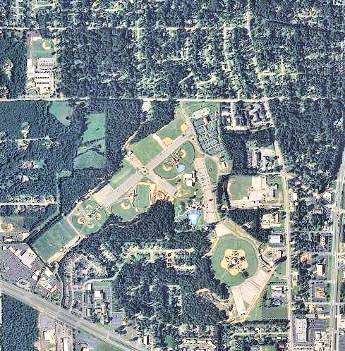 USGS digital orthophoto of Dothan Municipal Airport (Old) in Alabama